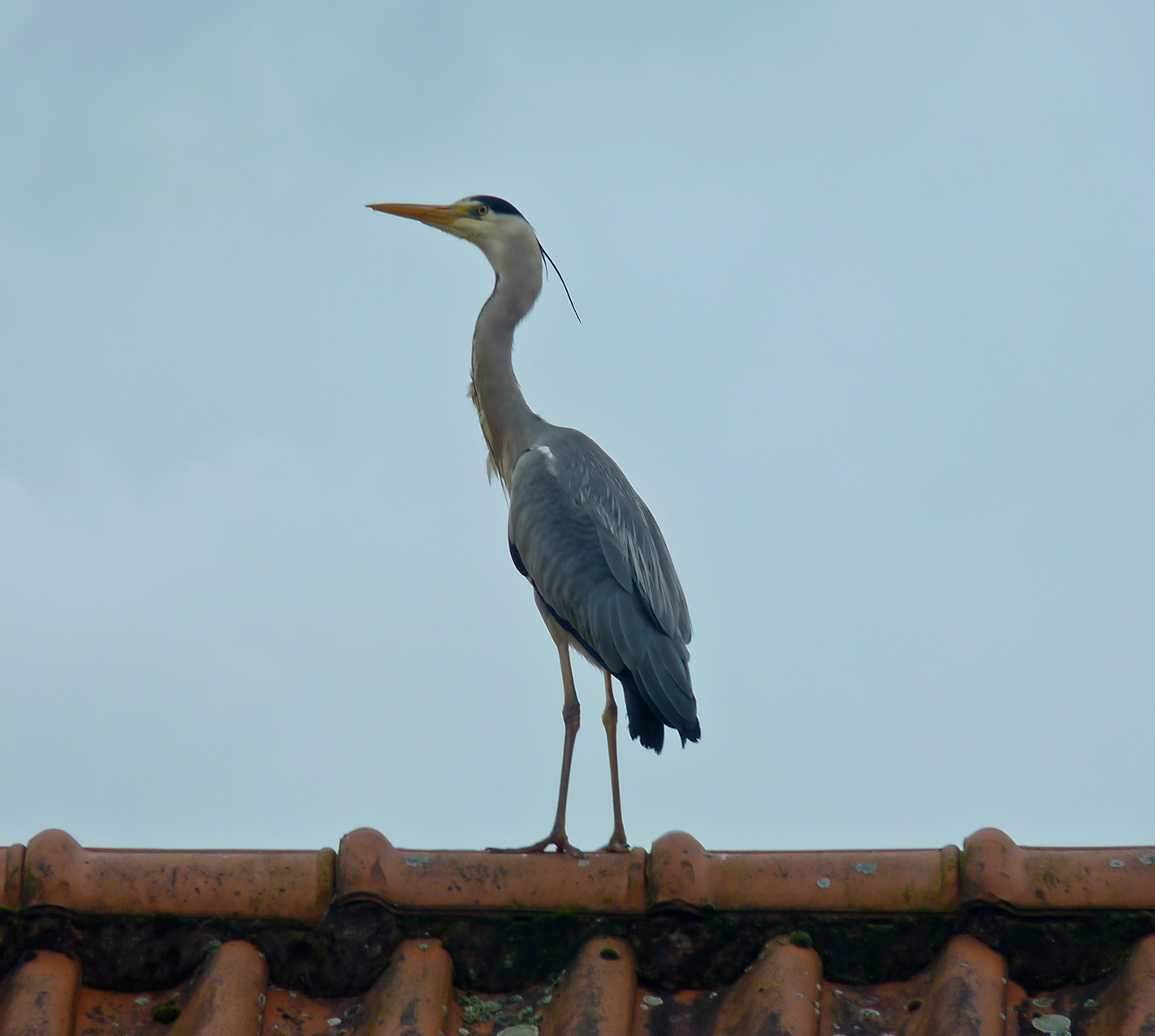 Grey Heron is watching out over the garden ponds in Maastricht, the Netherlands